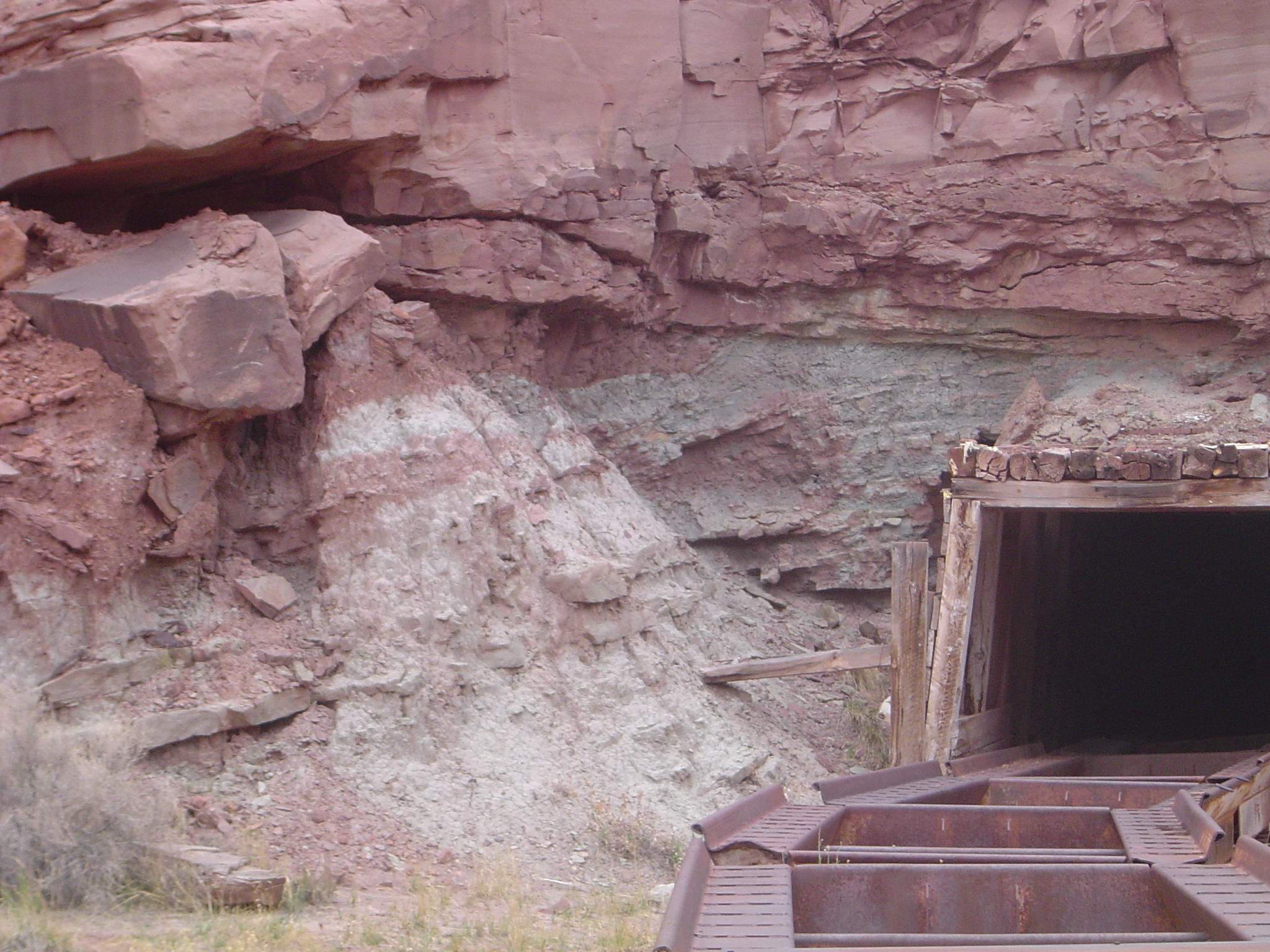 Mi Vida uranium mine (109°15'35.77"W 38°11'25.07"N) near Moab. Note alternating red and white/green sandstone and mudstone. This color variation corresponds to oxidized and reduced conditions in groundwater fluid redox chemistry. The rock forms in oxidizing conditions, and starts with the red coating. It is then "bleached" to the white/green state when a reducing fluid passes through the rock. The reduced fluid can also carry Uranium-bearing minerals